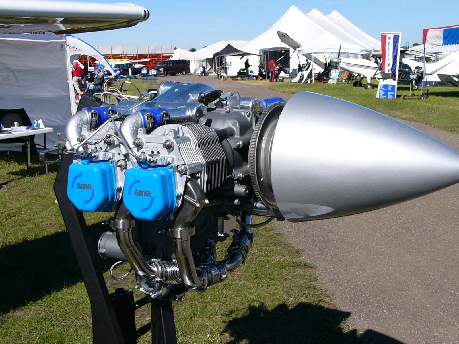 SMA SR305-230 diesel engine on display at the Canadian Aviation Expo, Oshawa, Ontario, Canada